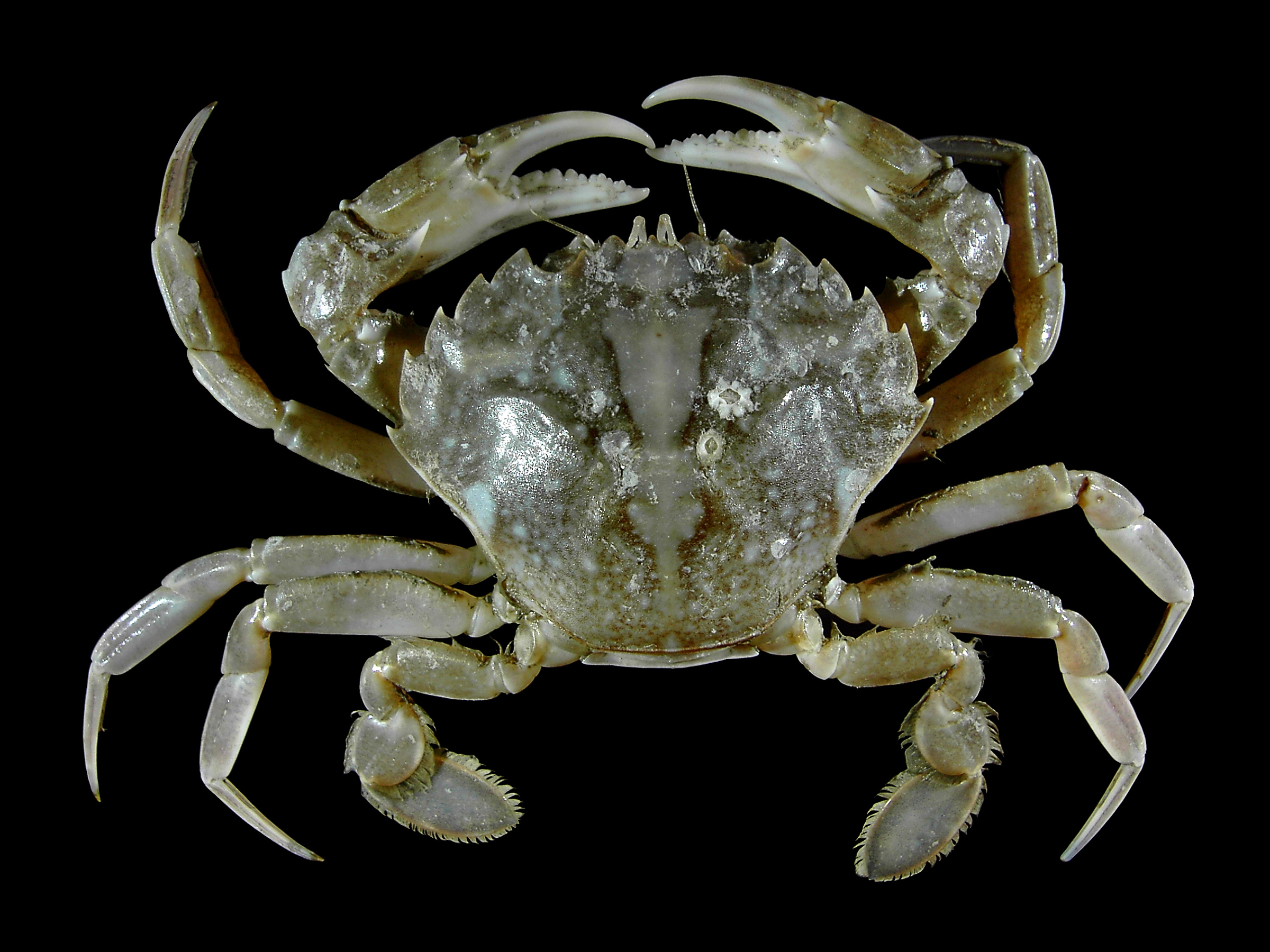 Vernal crab from the Belgian coastal waters on board of RV Belgica.